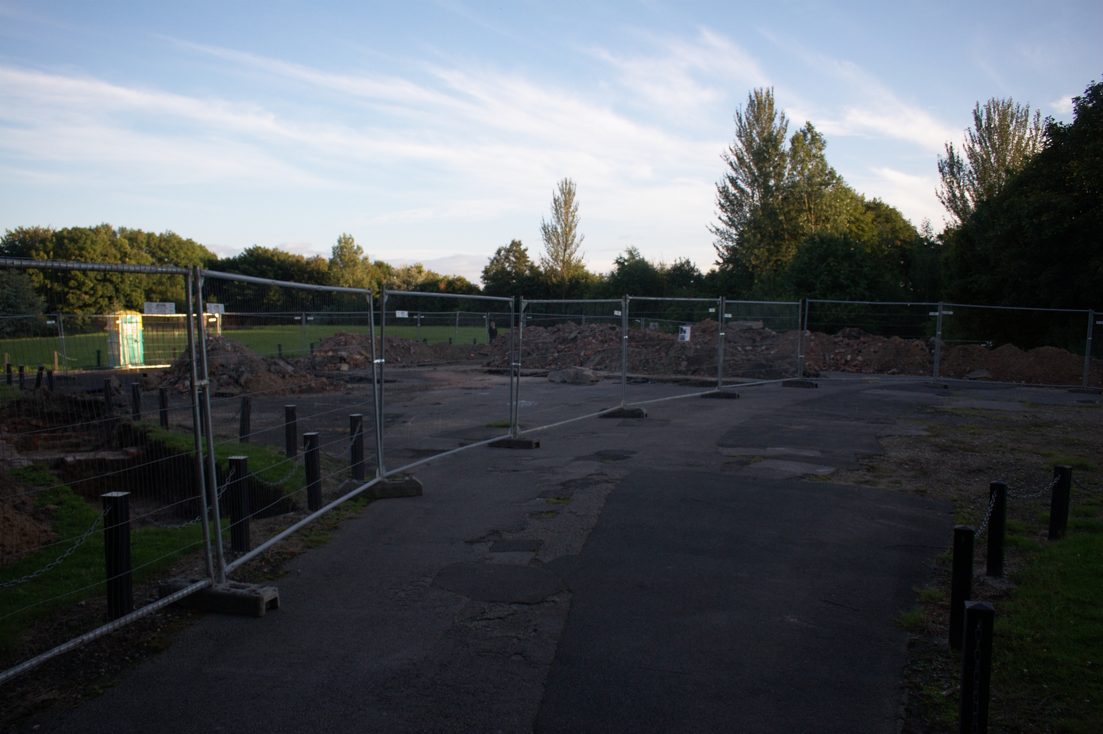 The Park, or rather the car park that now occupies the space where this building once was.